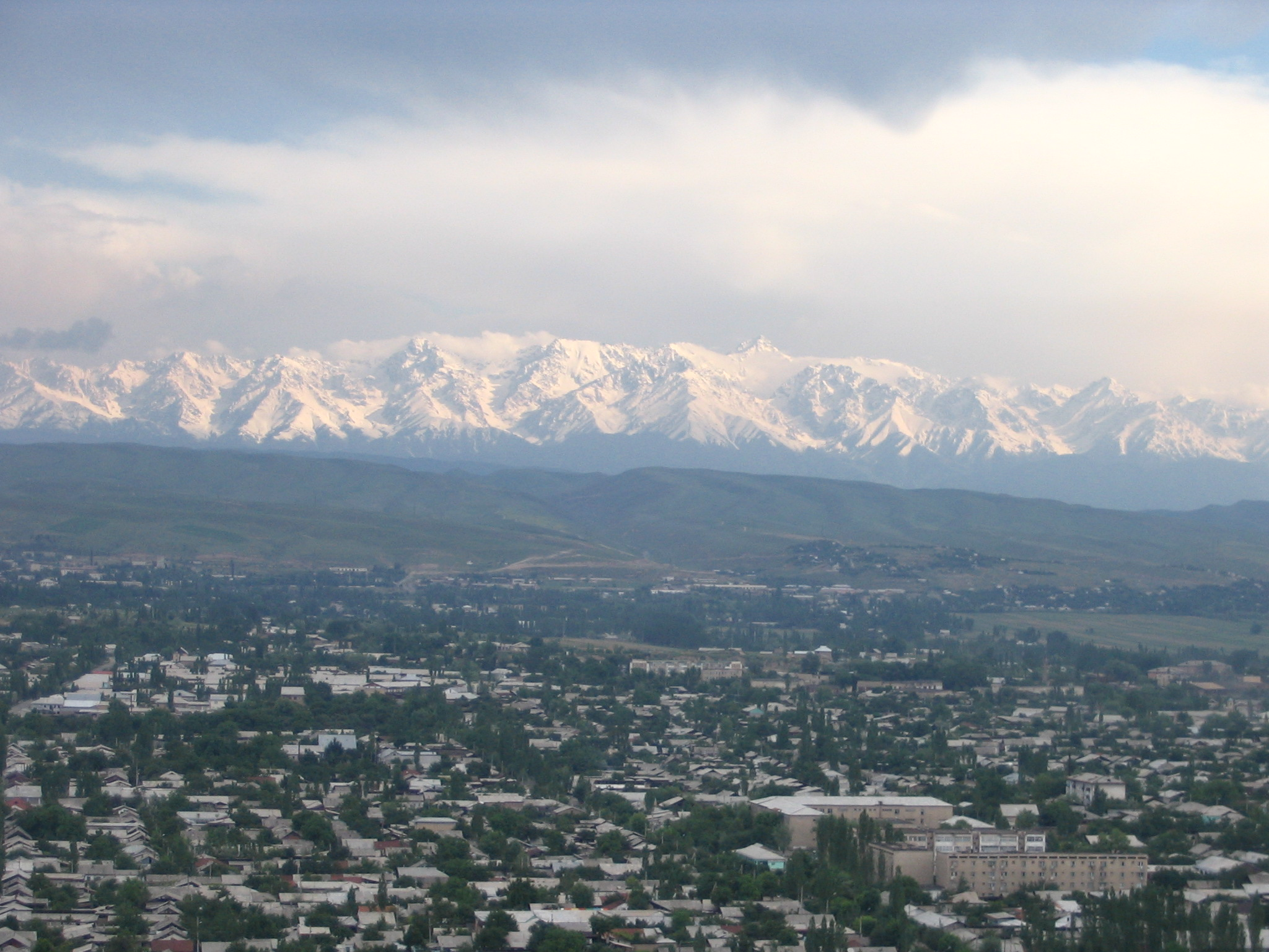 Around Osh